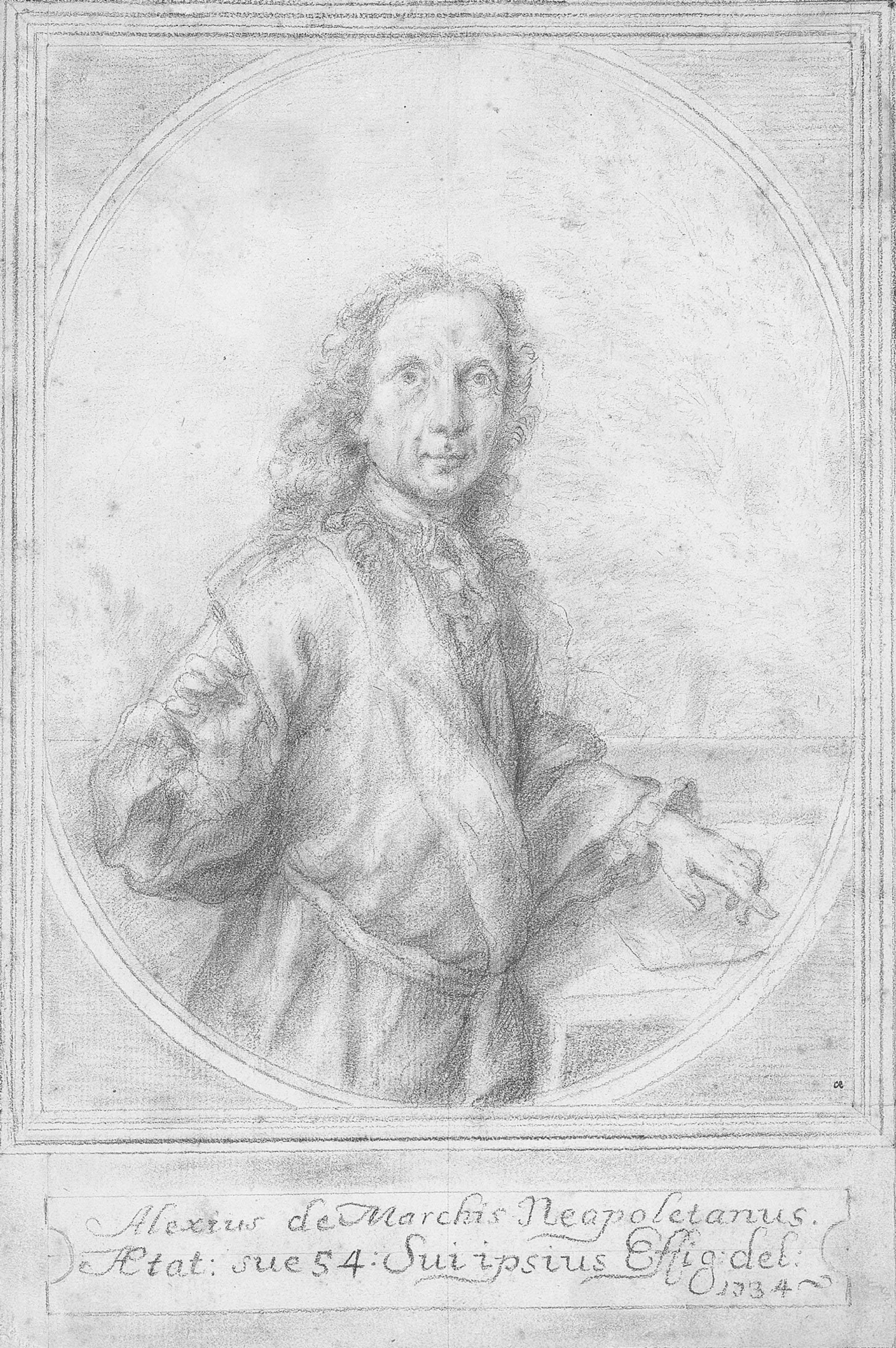 Alessio de Marchis (Naples 1684-1752 Perugia) black chalk, stumping 36.8 x 24.8 cm inscribed: Alexius de Marchis Neapoletanus. Aetat: sue 54: Sui ipsius Effig: del: 1734